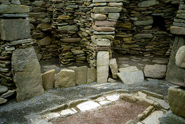 Inside a wheelhouse at Jarlshof, Mainland, Shetland